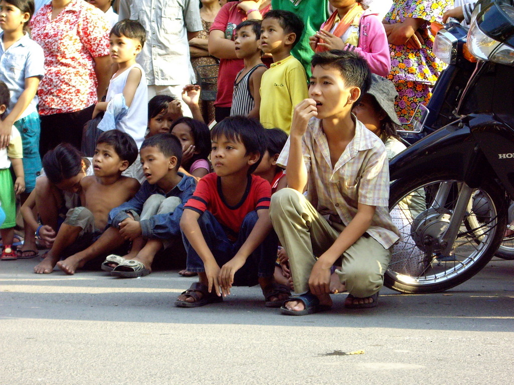 Chinese and Sino-Khmer kids